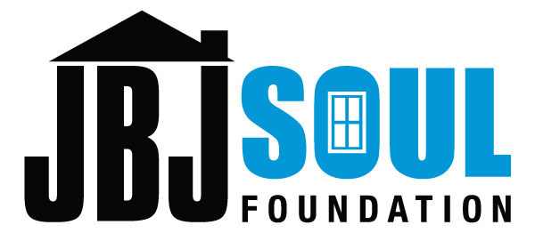 Jon Bon Jovi Soul Foundation